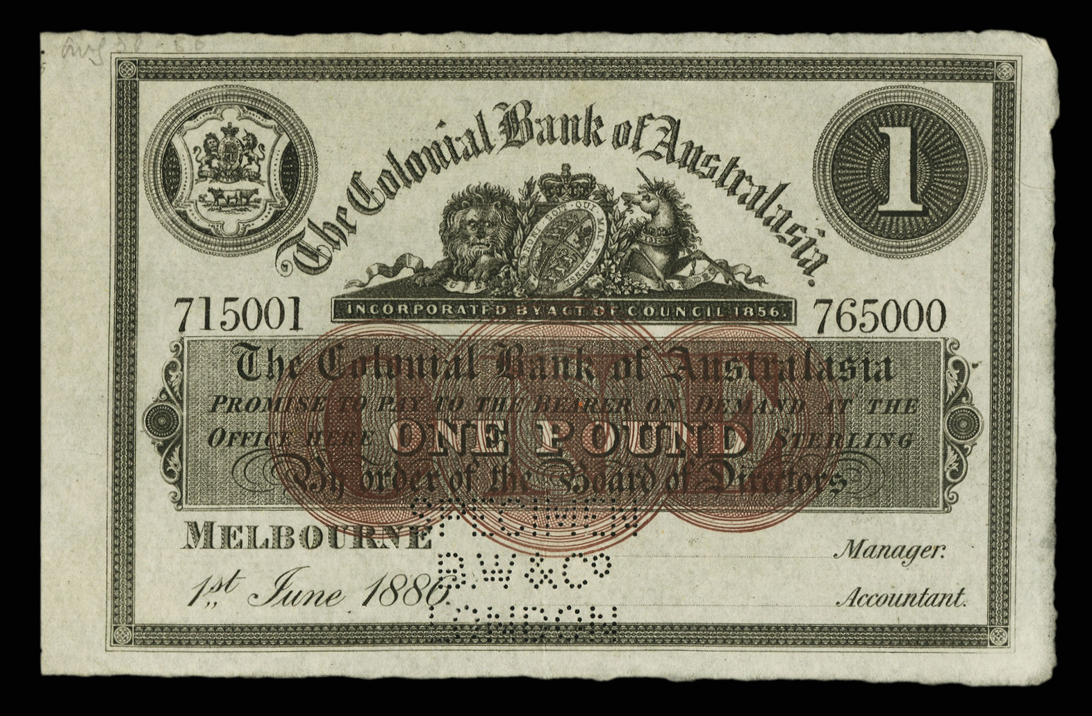 Australia Colonial Bank of Australasia 1 Pound Sterling 1-6-1886 (3532-26031)